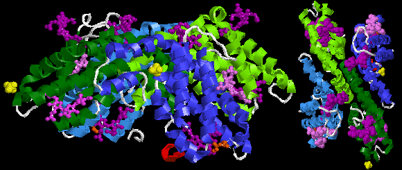 The crystal structure of R-phycoerythrin from Gracilaria chilensis (PDB ID: 1EYX). This image was created with RasTop (Molecular Visualization Software) and Adobe Photoshop Elements.